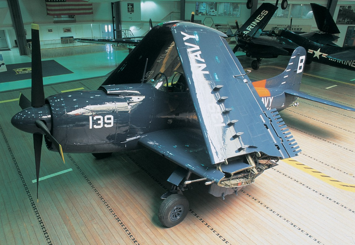 A U.S. Naval Reserve Martin AM-1 Mauler (122397) at the U.S. Navy National Museum of Naval Aviation, at Pensacola, Florida (USA). This AM-1 was delivered in March 1949, and logged 673 flight hours before being retired from the U.S. Naval Air Reserve in 1955. During its career it flew from Naval Air Stations Atlanta, Georgia, and NAS St. Louis, Missouri. Stored at the Aberdeen Proving Ground, Maryland, following its retirement from service, the aircraft was delivered to the museum in 1971.